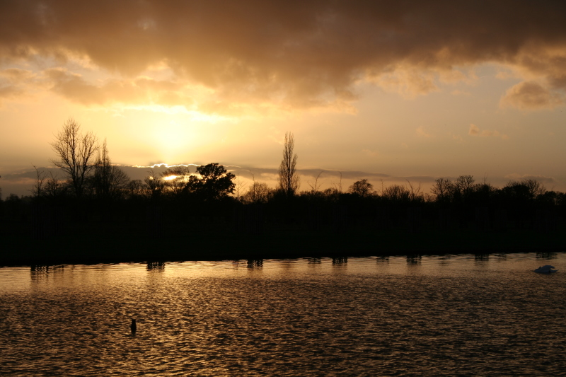 Sunset over the long water at Hampton Court Palace